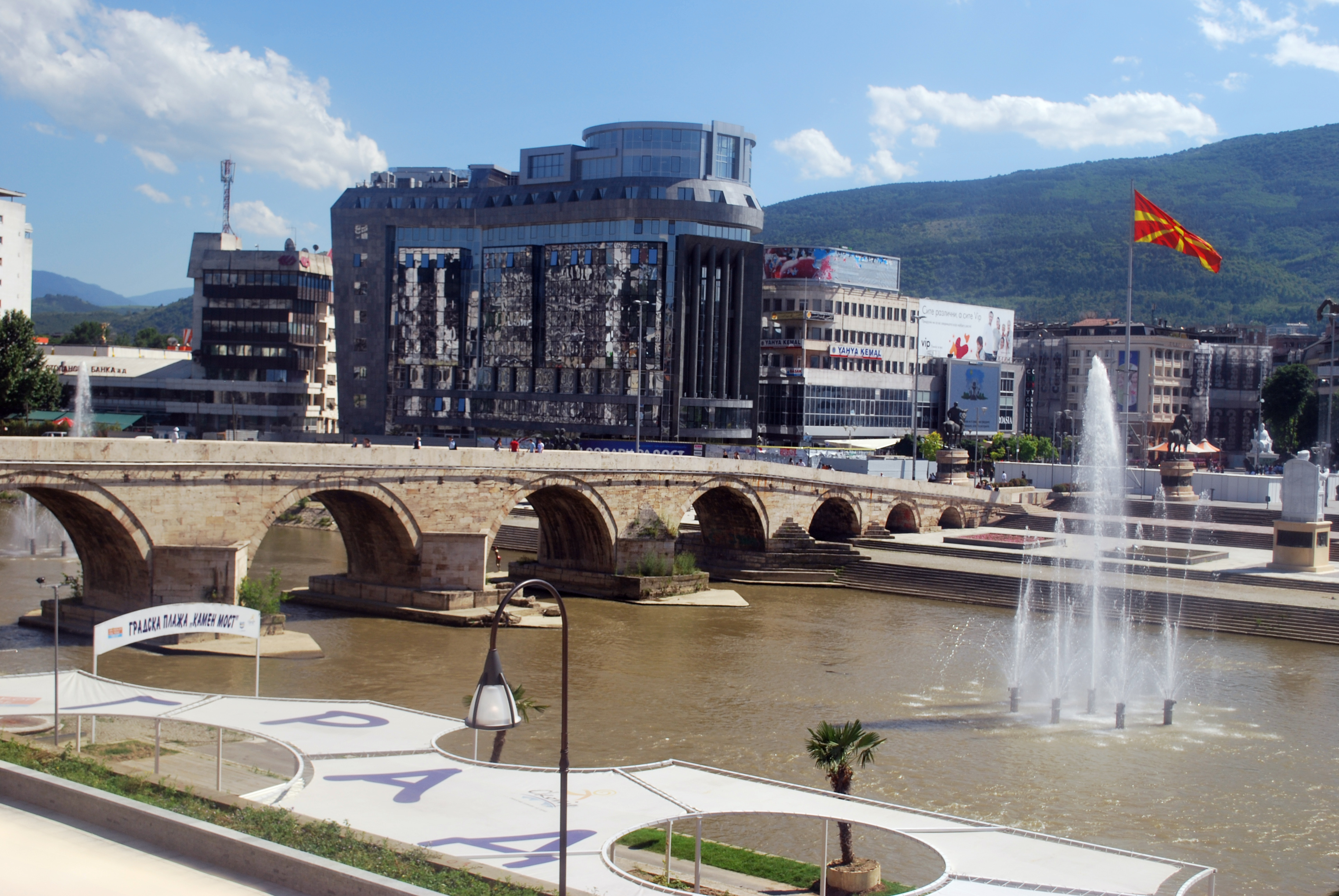 Skopje, Macedonia